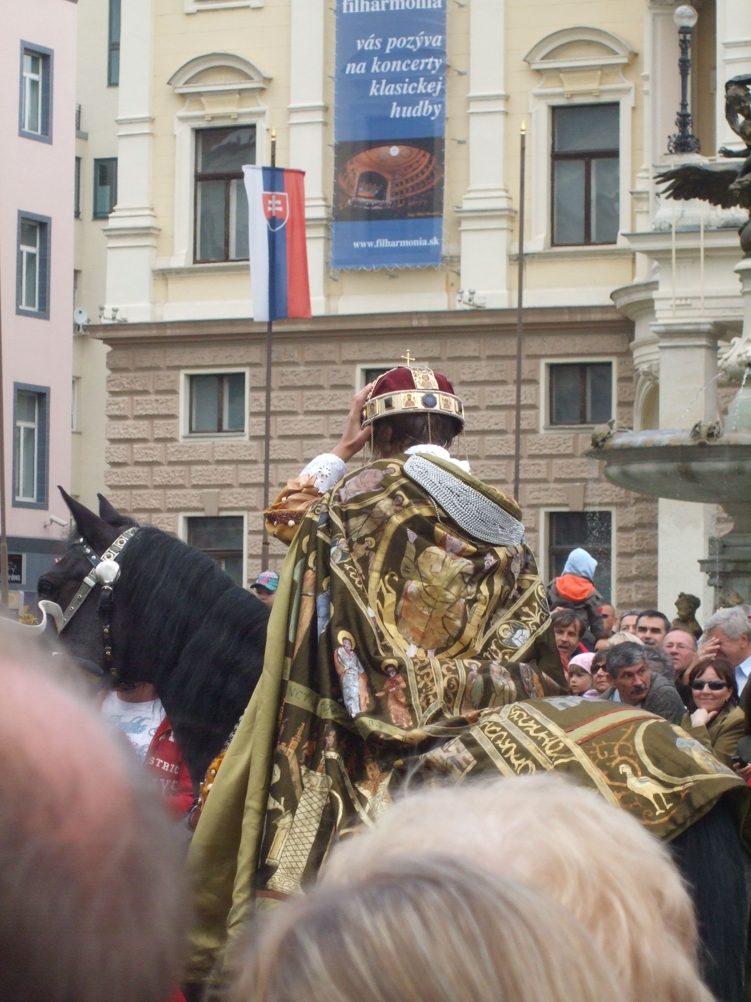 Coronation Celebration in Bratislava (2010/09/05). On the picture is young king Ferdinand IV. (actor Emil Zvarík) on horseback. He goes to coronation hill.